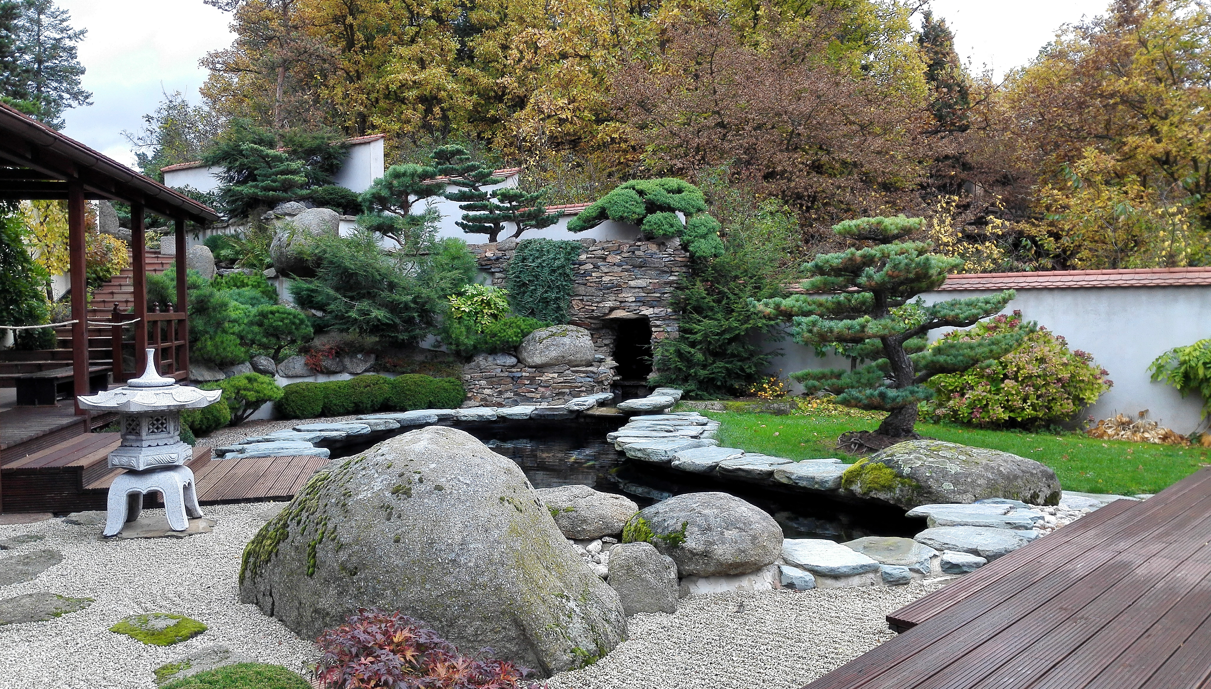 Japanese garden Oleško in Březová-Oleško (Central Bohemian Region, Czechia).